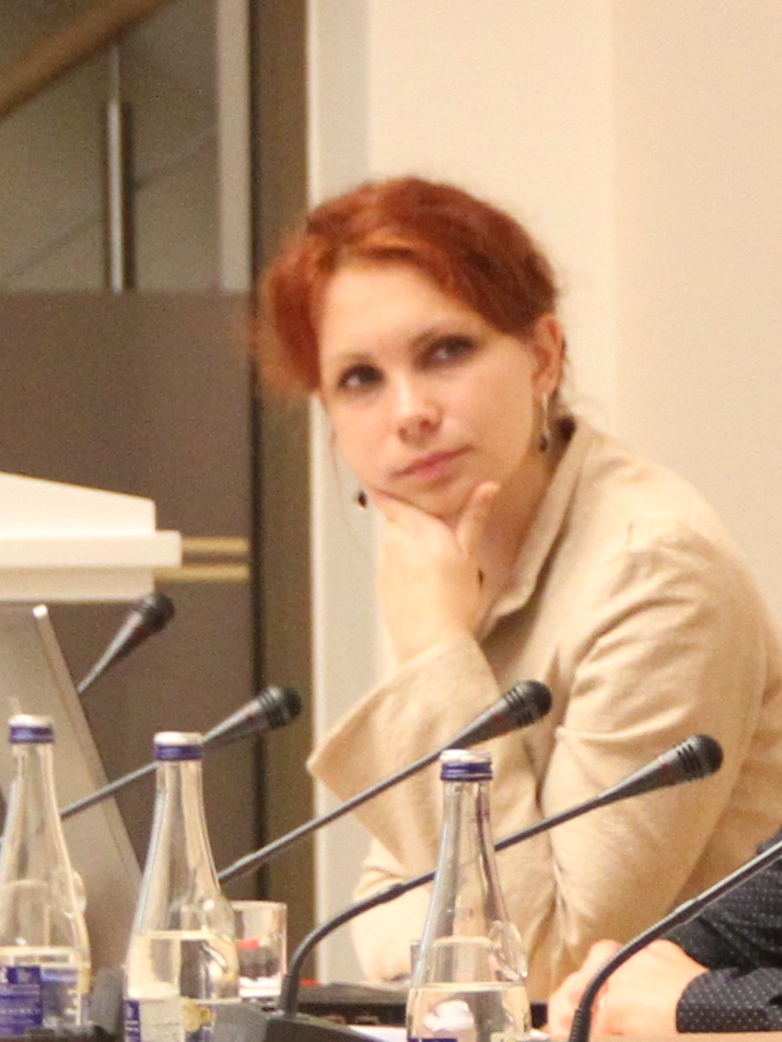 Ieva Petronytė, director of the Civic Society Institute in Vilnius, Lithuania